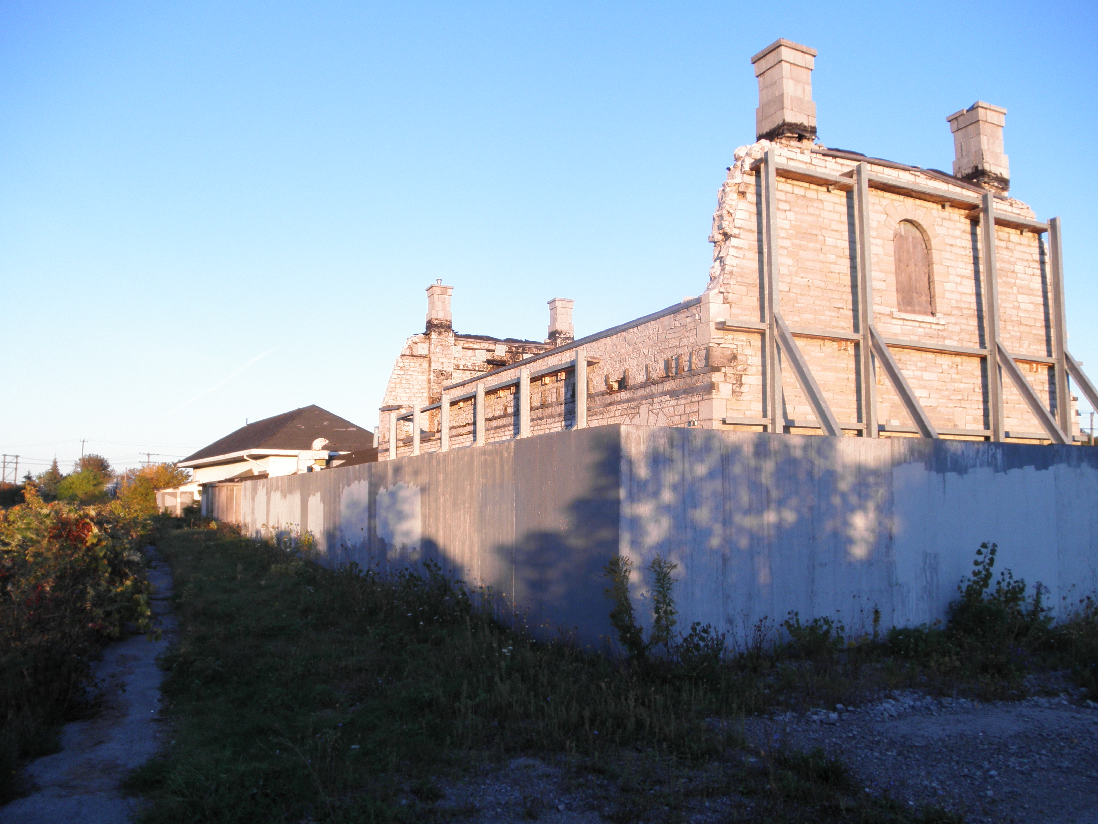 A view of the original 1850s Grand Trunk Railway outer station in Kingston, Ontario from trackside, an angle at which it would be seen by passengers arriving from Toronto from 1859-1974. The CN mainline was relocated further north in 1976, stranding the former station off the line. Designated in 1994 as a heritage railway station under the federal Heritage Railway Stations Protection Act and left to rot by the Canadian National Railway, the roof was damaged by a 1996 fire and never replaced.